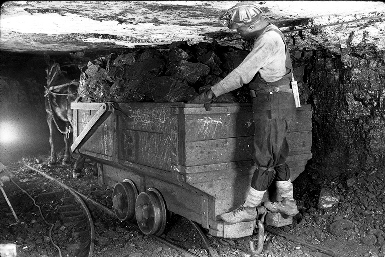 Photo shows a mule pulling load of coal in an old mine